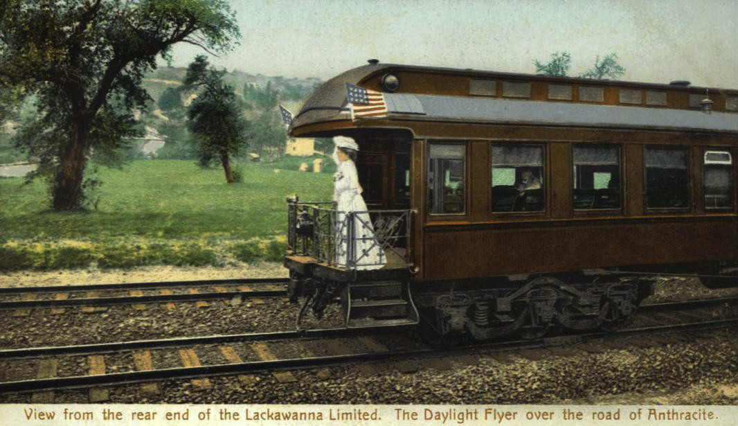 Postcard photo of the observation car of the "Lackawanna Limited" of the Delaware, Lackawanna and Western Railroad. The woman standing on the car's platform in white appears to represent Phoebe Snow, the fictional character the railroad created to publicize that since they burned anthracite (hard) coal, it was cleaner-burning, thus the light or white clothing of travelers stayed free from cinders and soot. Phoebe Snow always wore a corsage of violets pinned on her left. The woman pictured on the card has a violet corsage on her left.